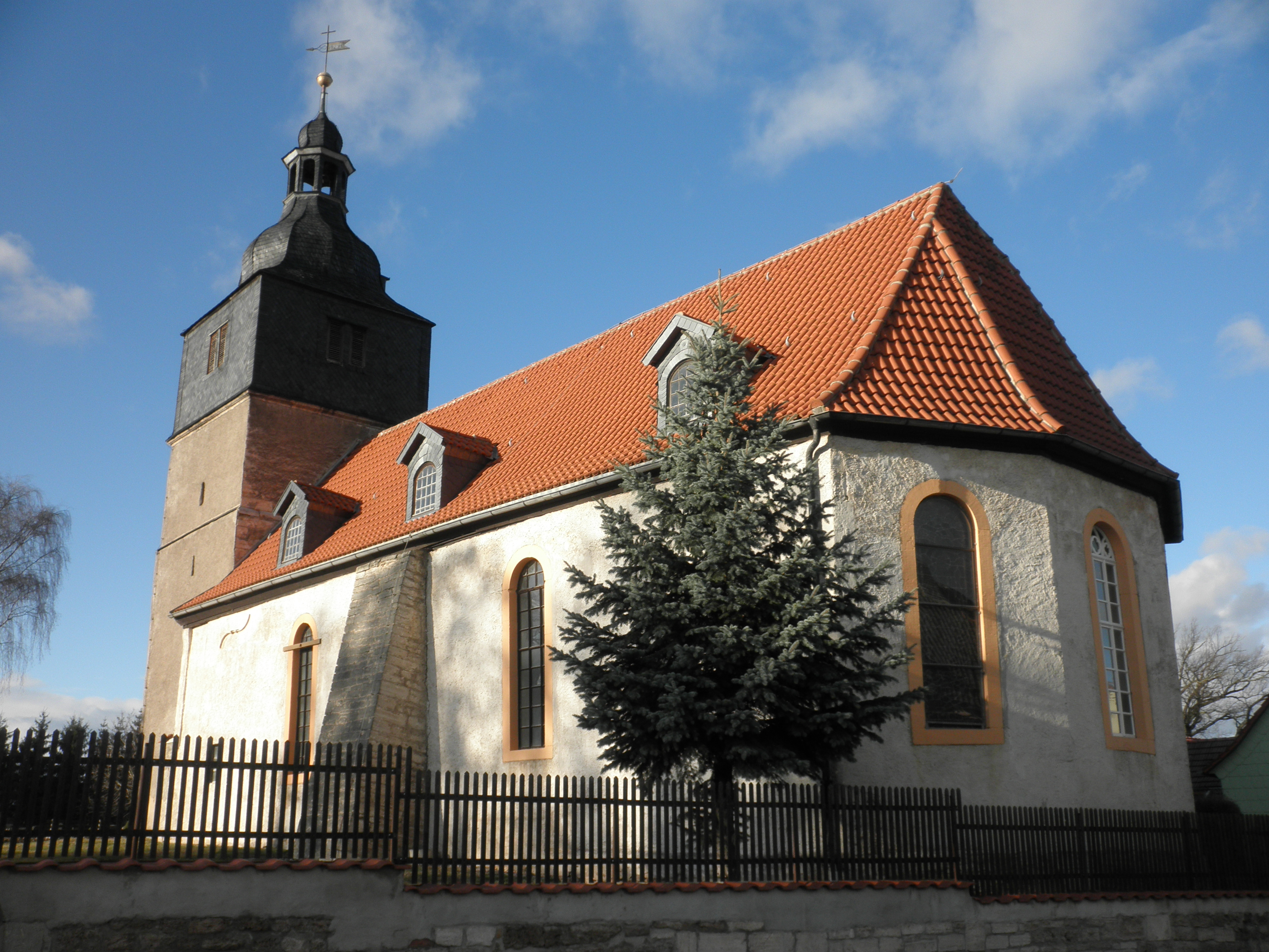 Church in Bothenheilingen in Thuringia